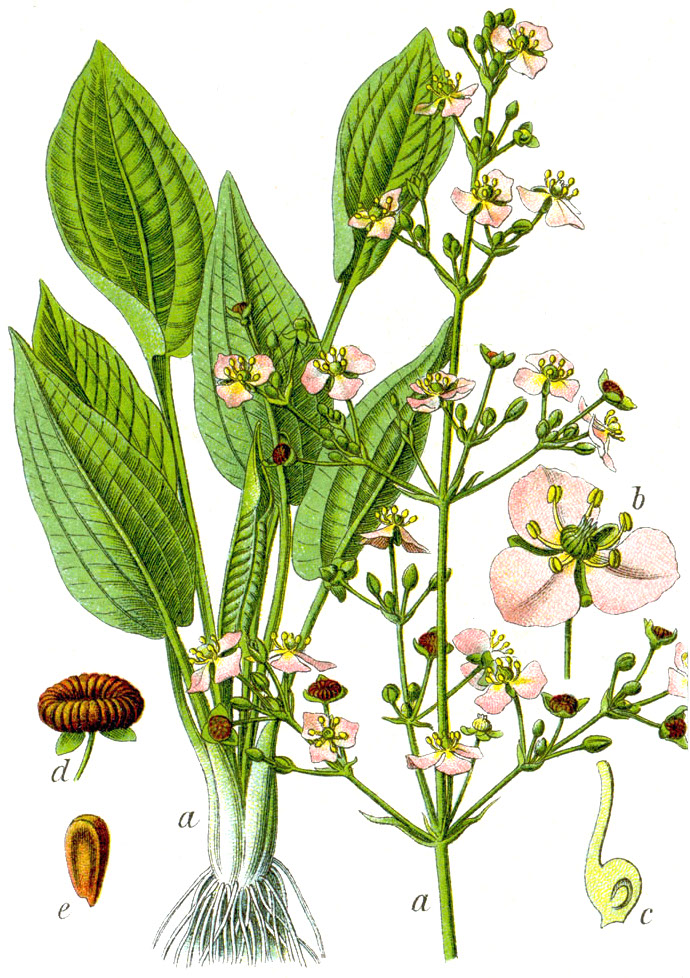 Alisma plantago-aquatica subsp. plantago-aquatica, syn. Alisma michaletii (Asch. & Graebn.) Asch. & Graebn. Original Caption Echter Froschlöffel, Alisma michaletii